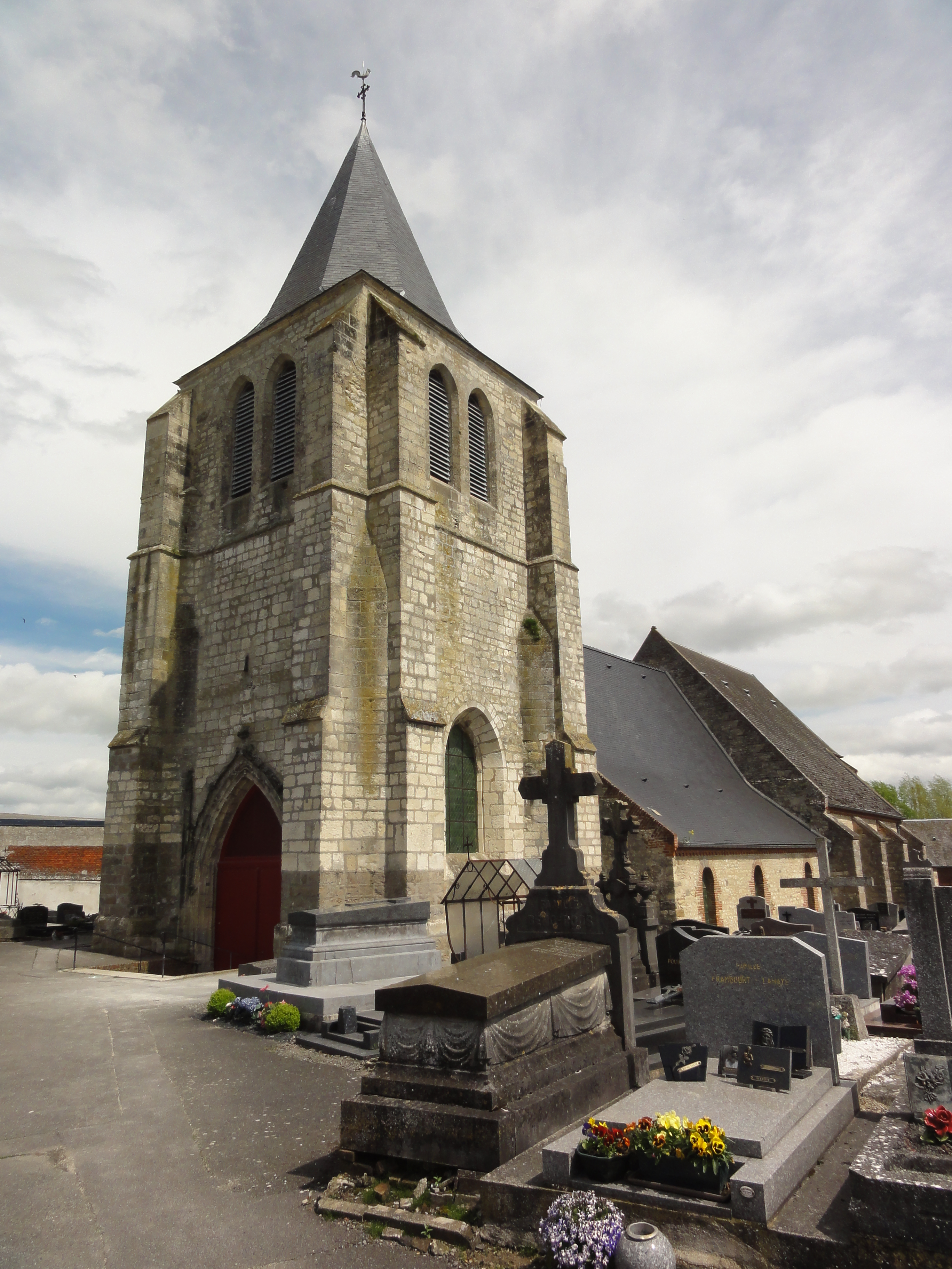 Pouilly-sur-Serre (Aisne) église